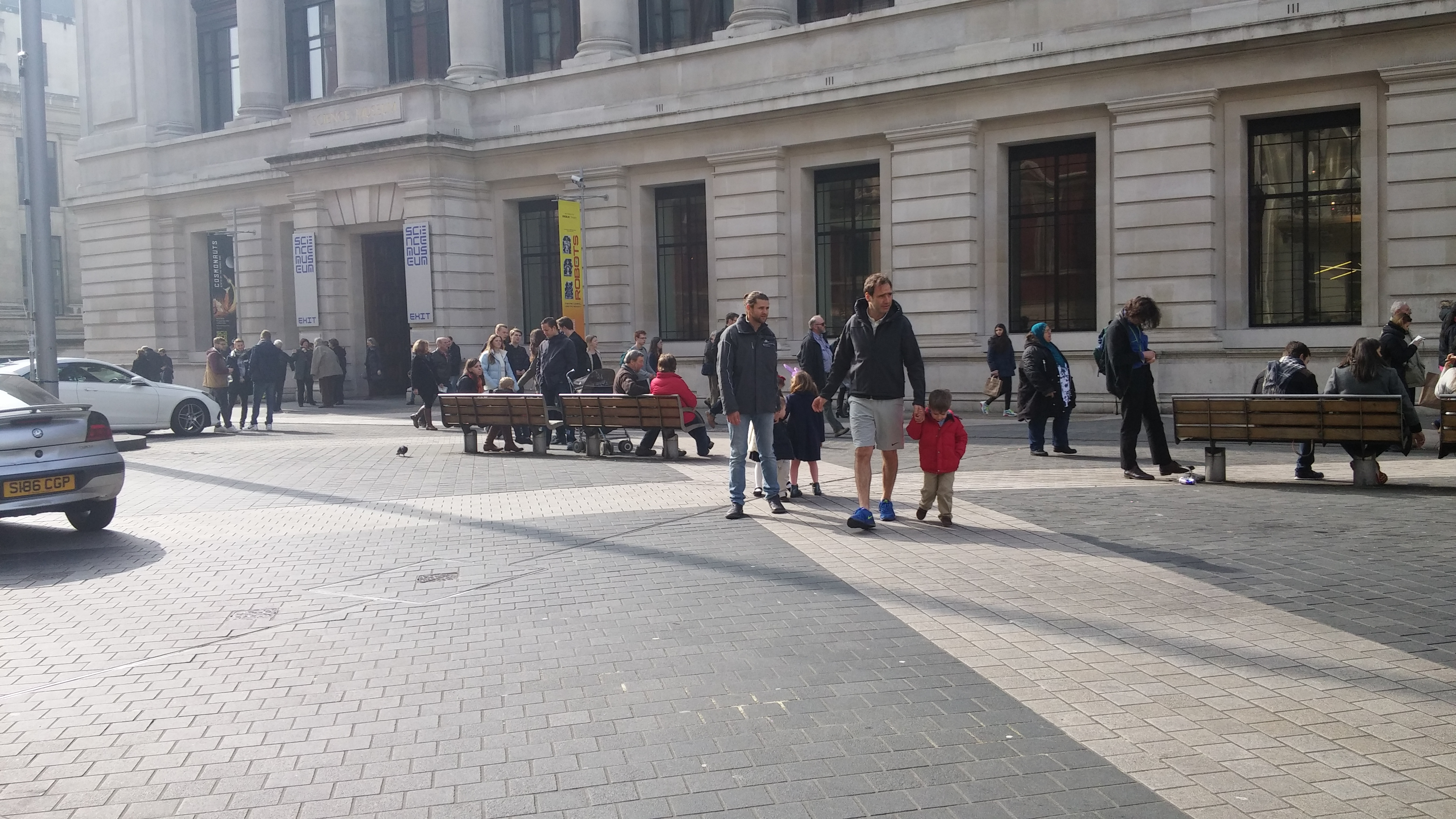 Parents looking very carefully before crossing "shared space" on Exhibition Road